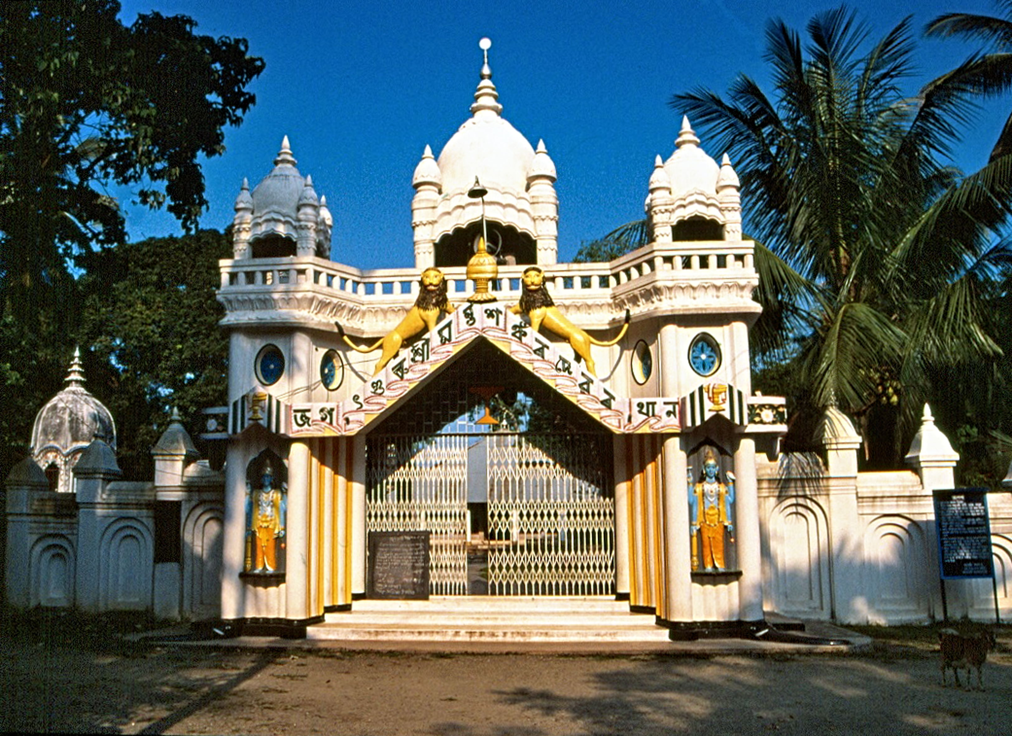 The Shankerdev Satra, at Barpeta,Assam